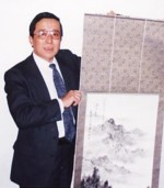 Yu Huan and his work